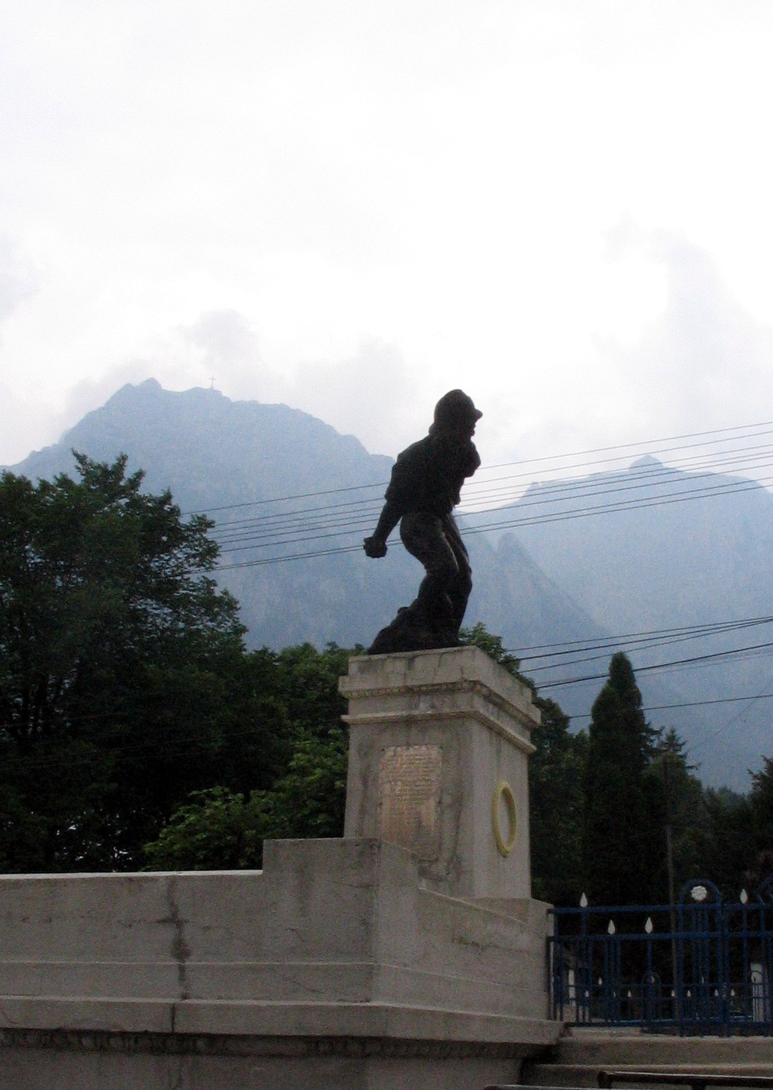 The "Last hand-grenade" monument, in front of the railway station in Buşteni, RomaniaRomână: Statuia "Ultima grenadă” - a caporalului Constantin Muşat, în faţa gării Buşteni, judeţul Prahova, România